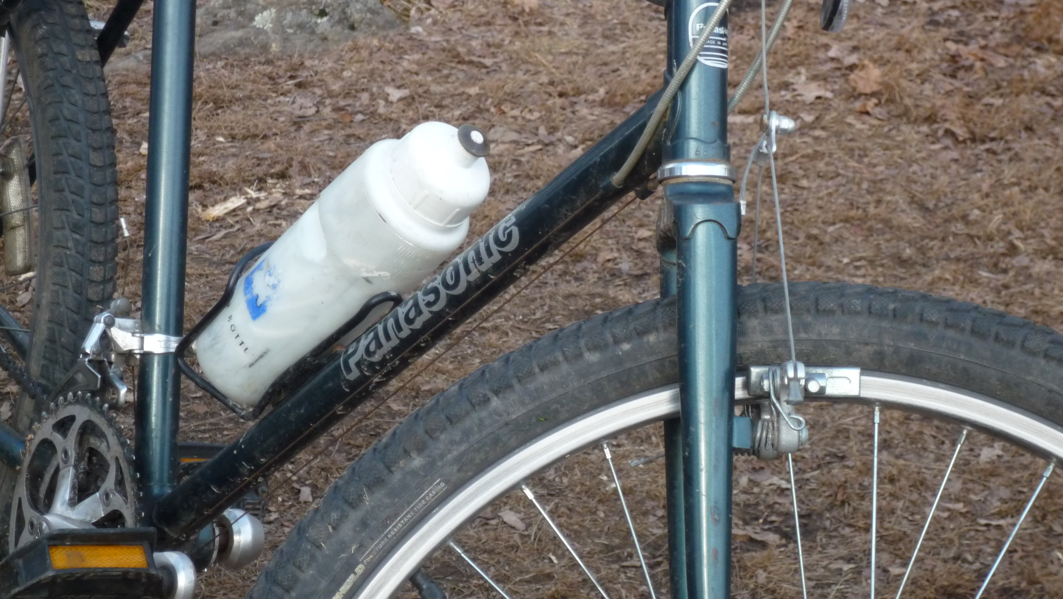 Panasonic Mountain Bike from 1986.